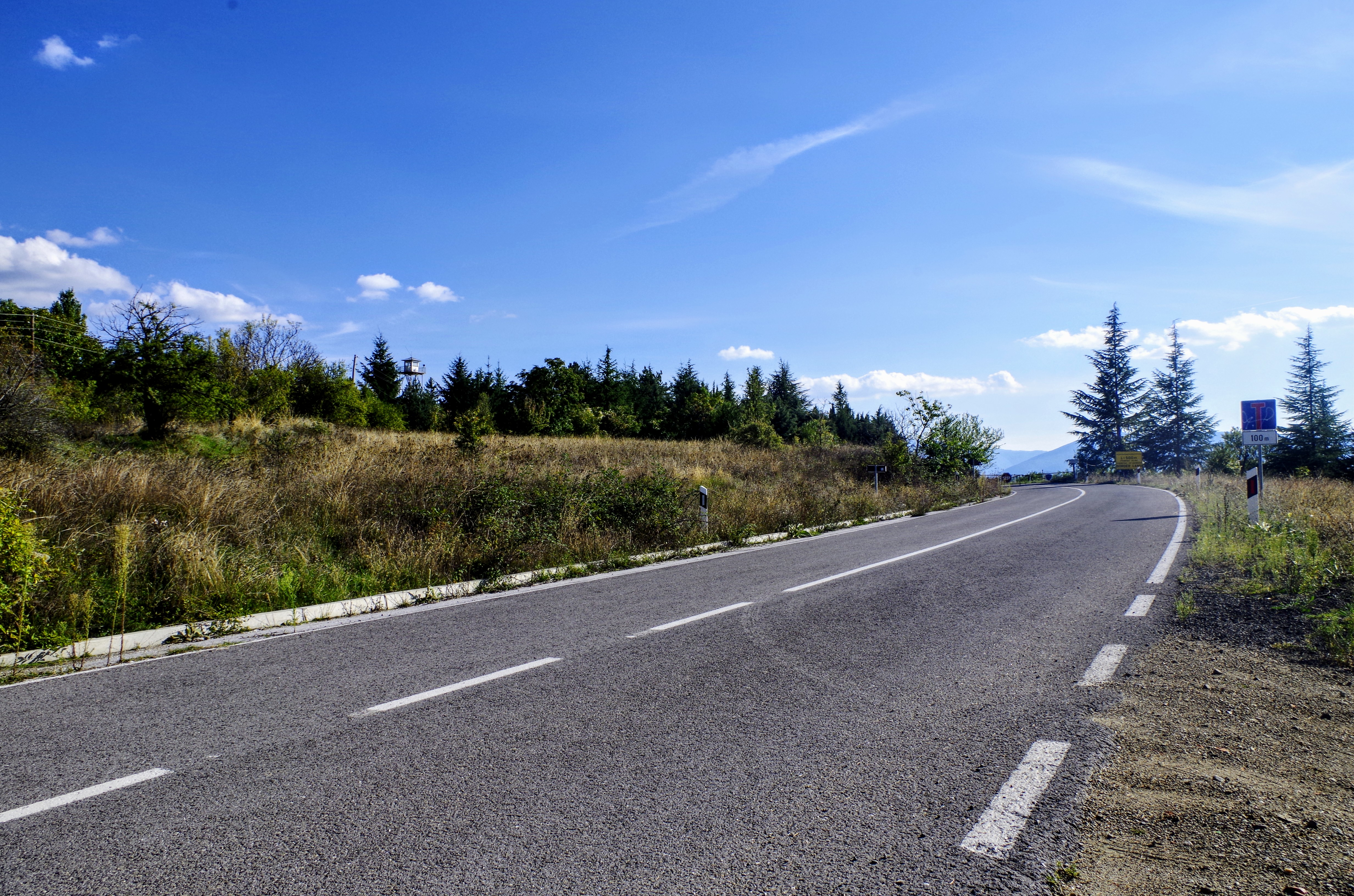 View of the abandoned border crossing with Greece near the village Dolno Dupeni, additionally most southern poing in the Republic of Macedonia